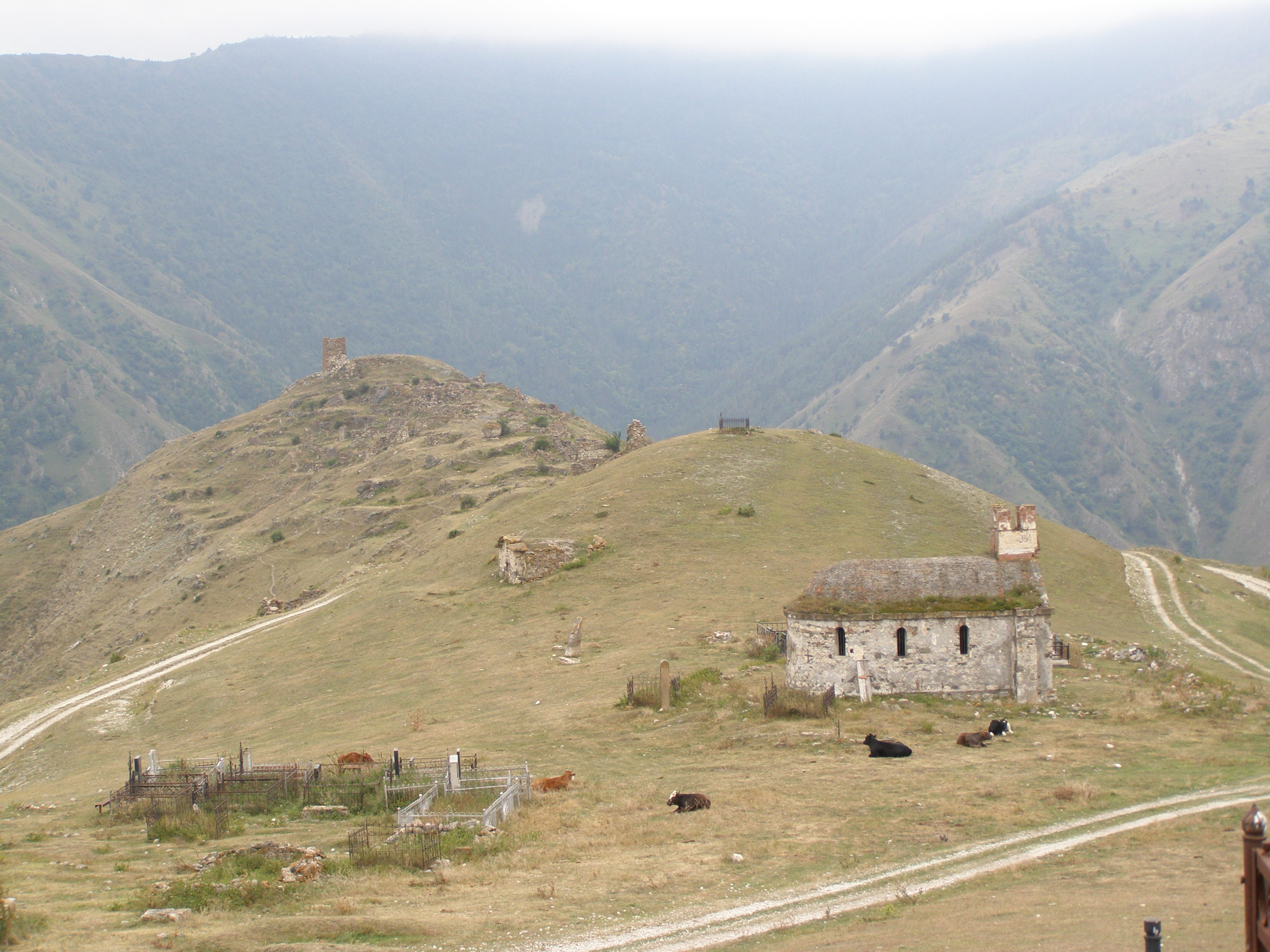 Ossetia, Mizur